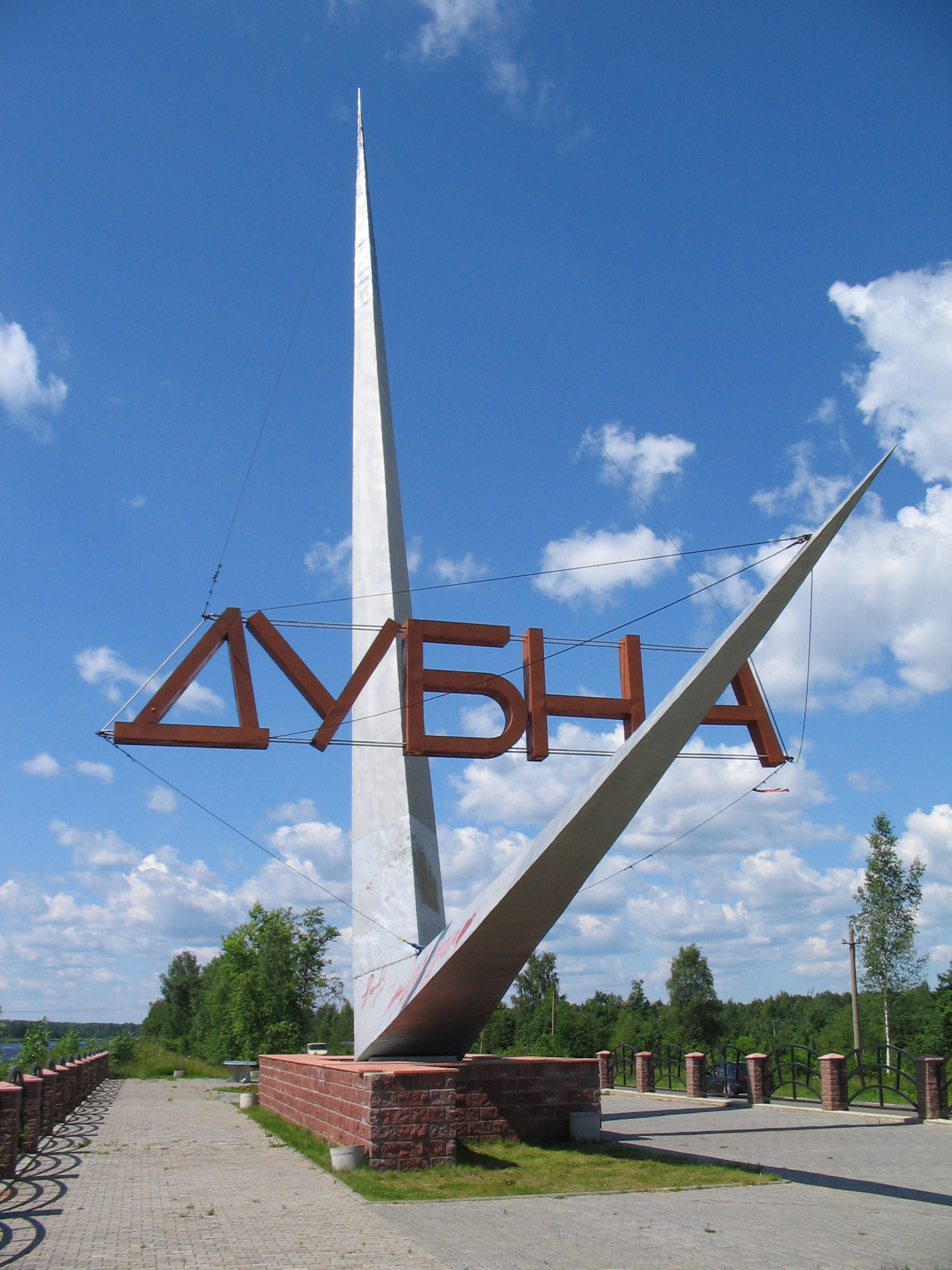 Dubna's stele